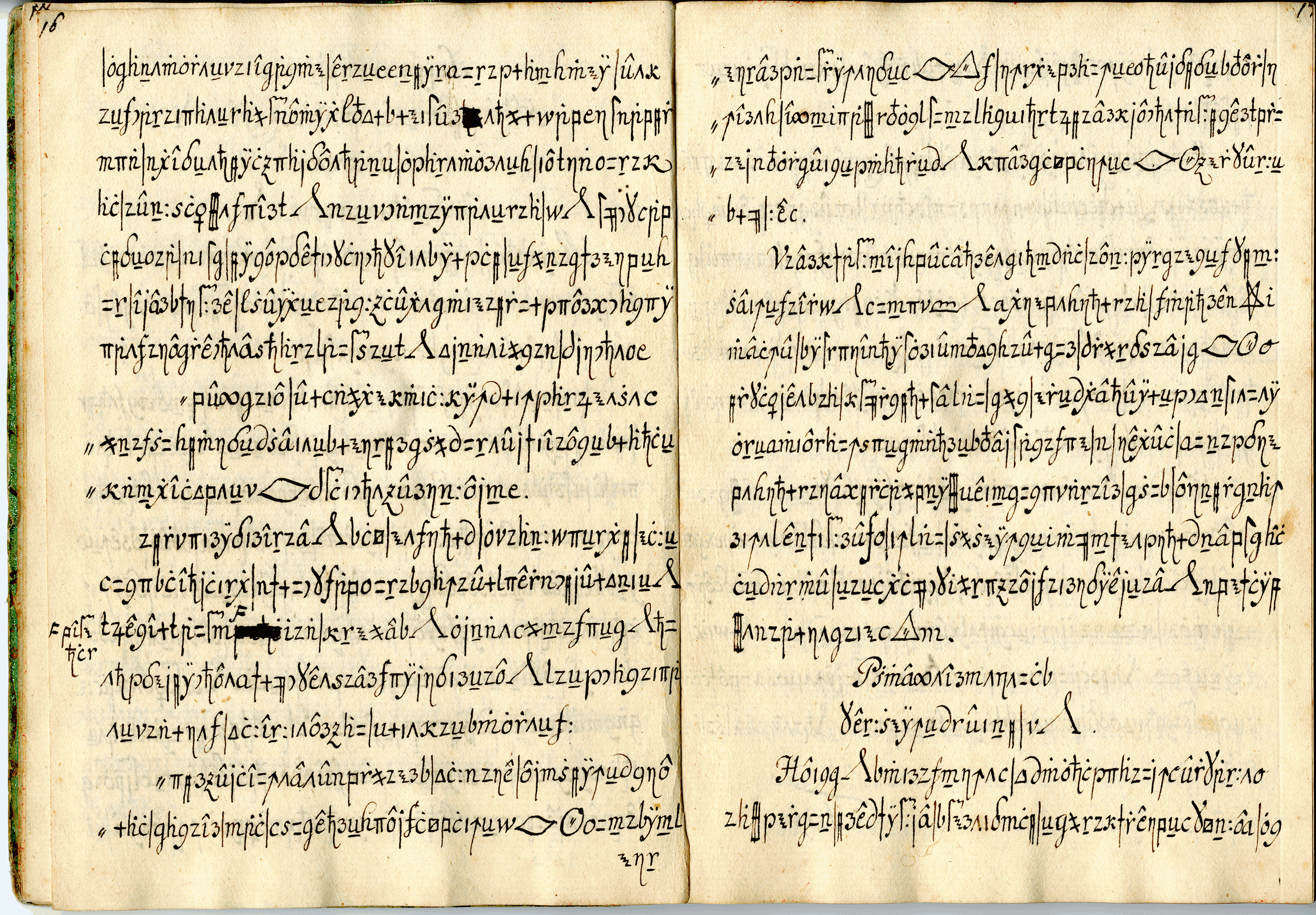 Copiale Cipher; scaled page 16/17